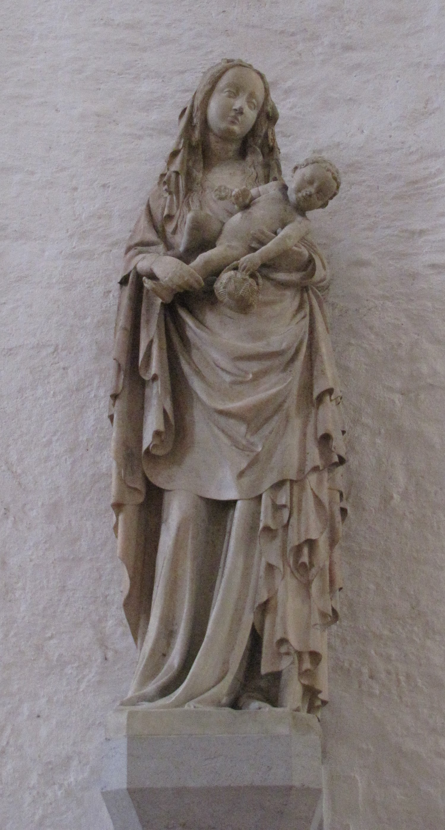 Darsow Madonna, St. Marien, Lübeck